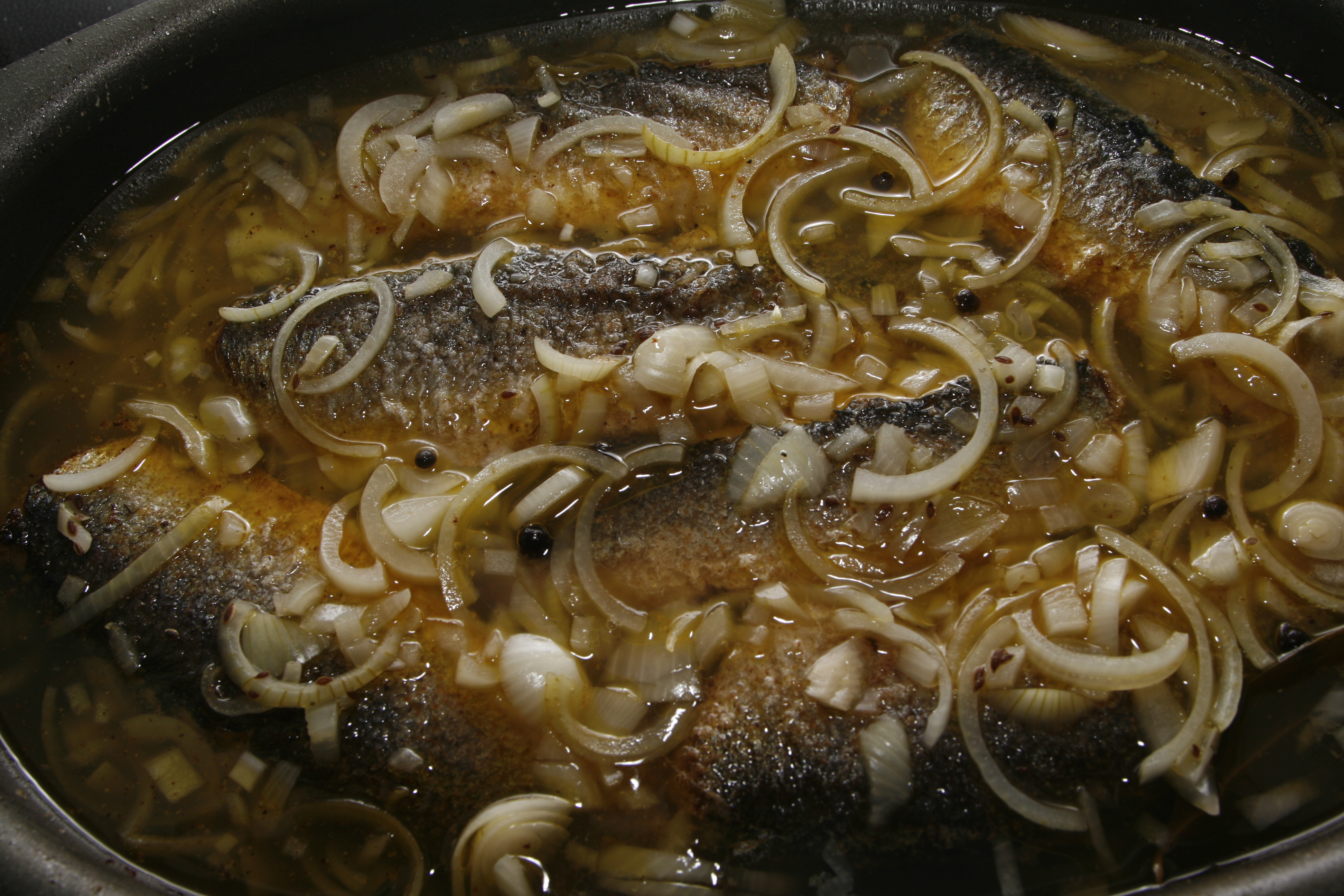 Grilled and pickled herring